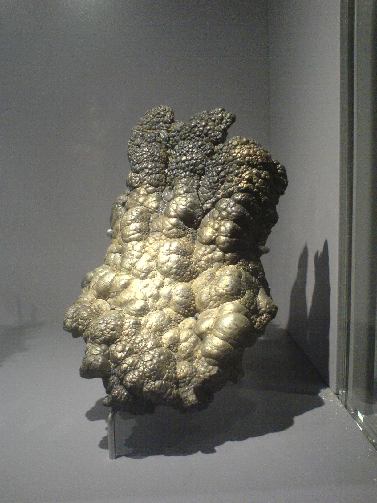 Native silver on native copper. Provenance: An unknown location in Bolivia. Ancient Vésignié Collection. Gallery of Minerology and Geology of the National Museum of Natural History, Paris, France.